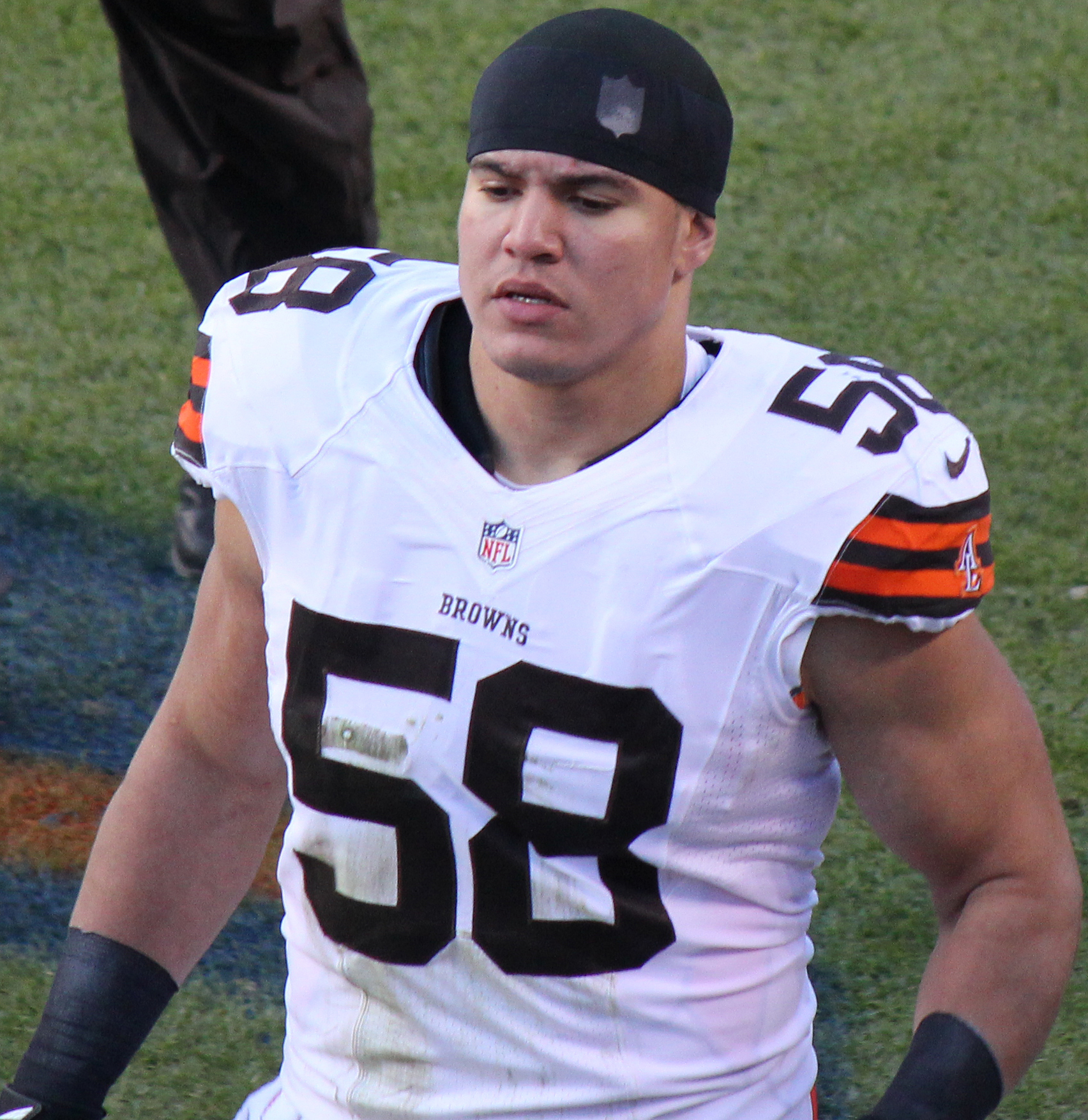 L.J. Fort, a player on the National Football League.